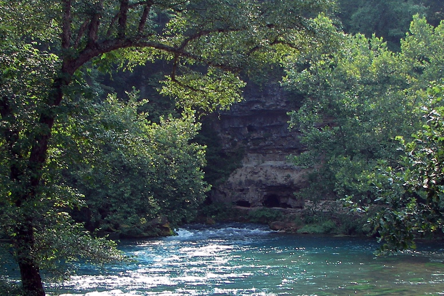 Big Spring, a giant karst spring in The Ozarks, Missouri. South of Van Buren it feeds the waters of Current River with ca. 444 cubic feet/s (12,6 m³/s).